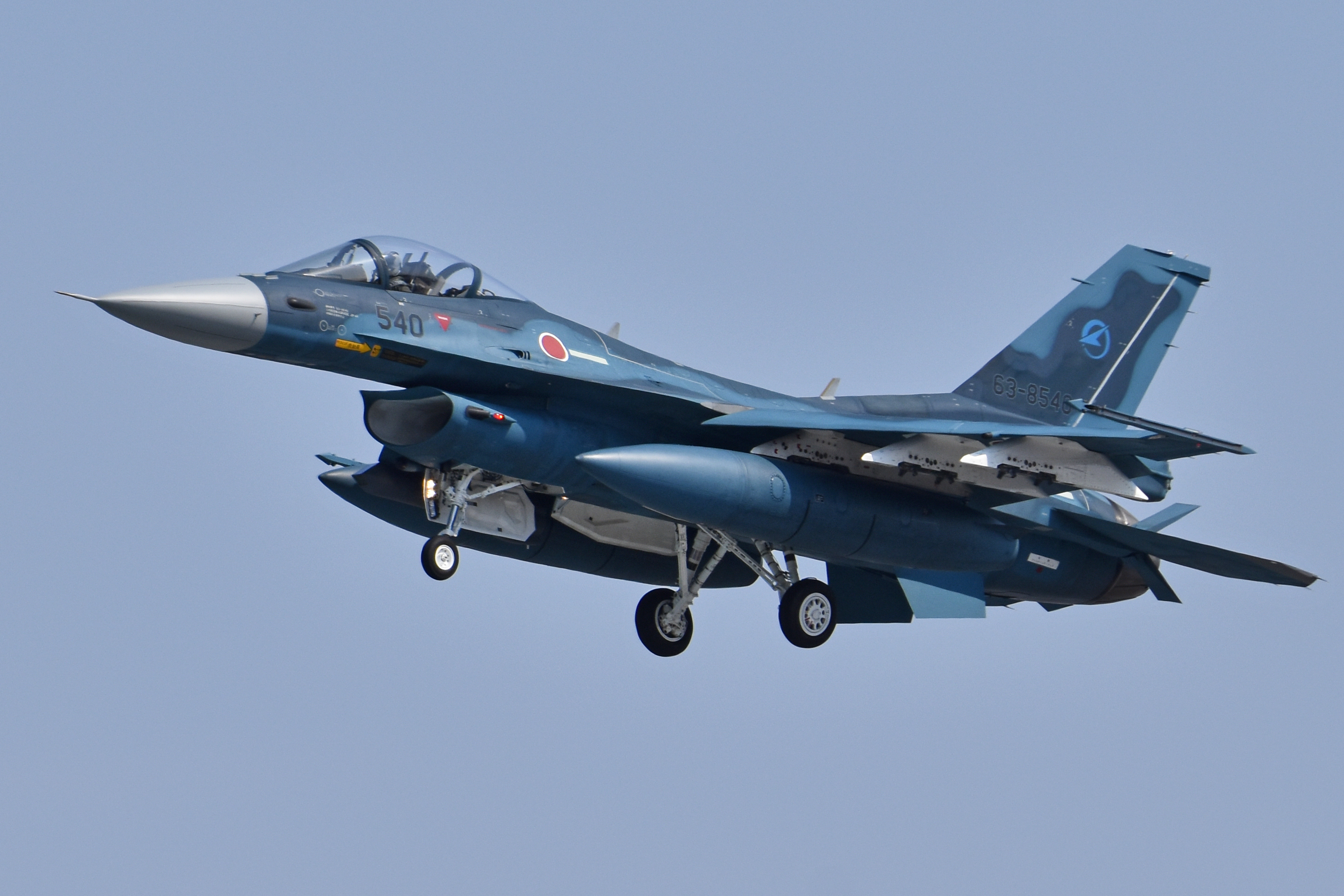 c/n 1040 Operated by the Air Development & Test Wing (AD&TW), Japanese Air Self Defence Force Gifu Air Base, Kakamigahara City, Gifu Prefecture, Japan 15th March 2019